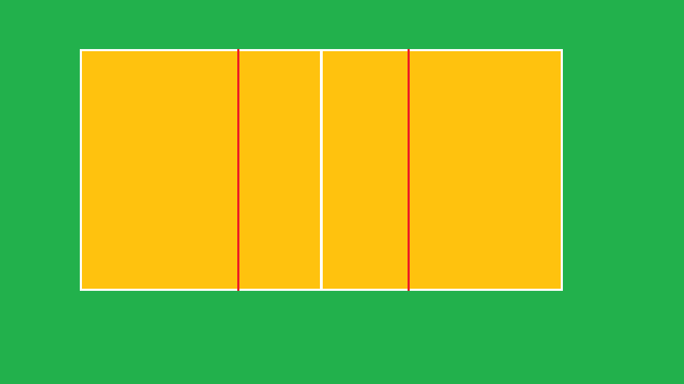 attack line of volleyball